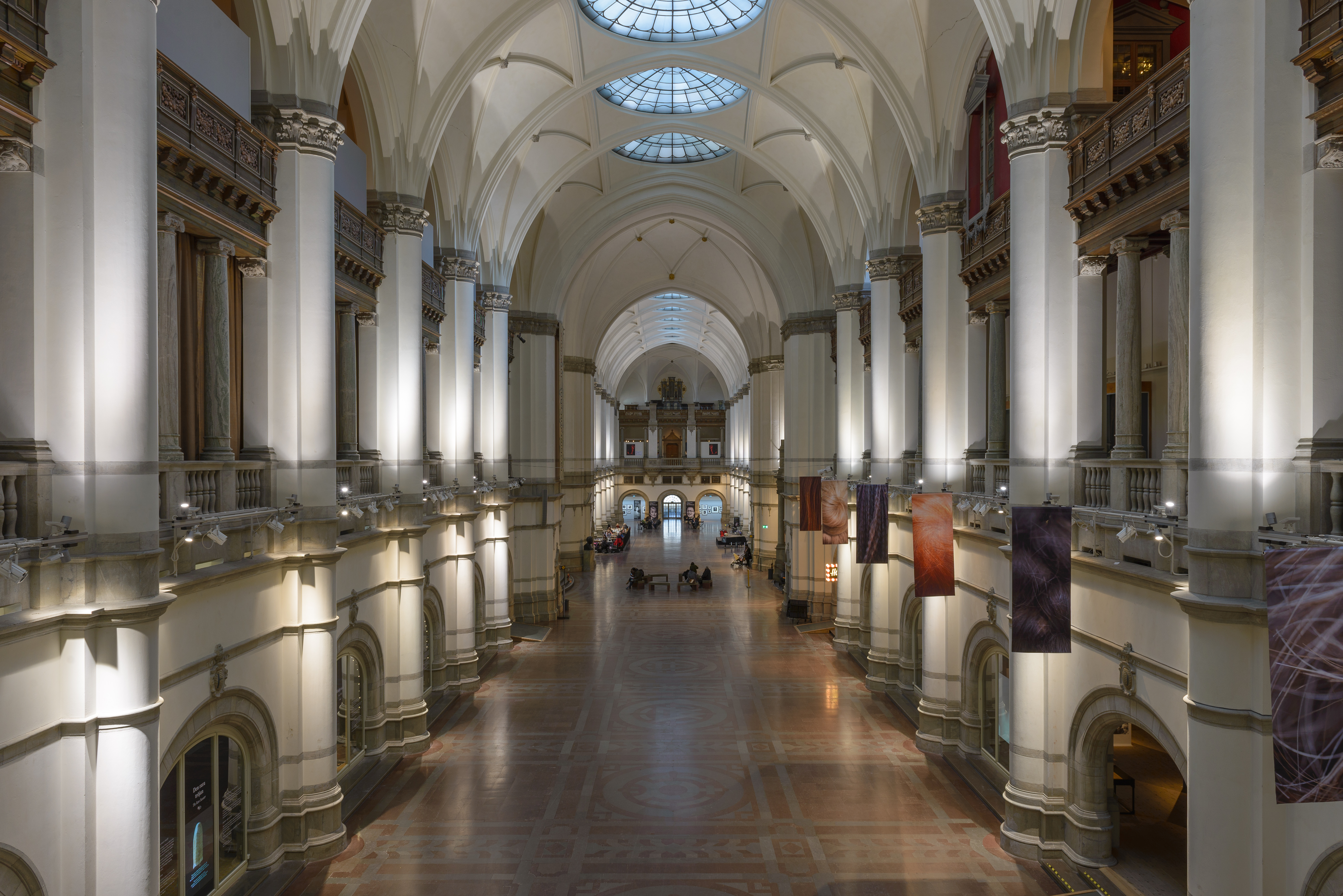 The main hall at Nordiska museet, Stockholm.